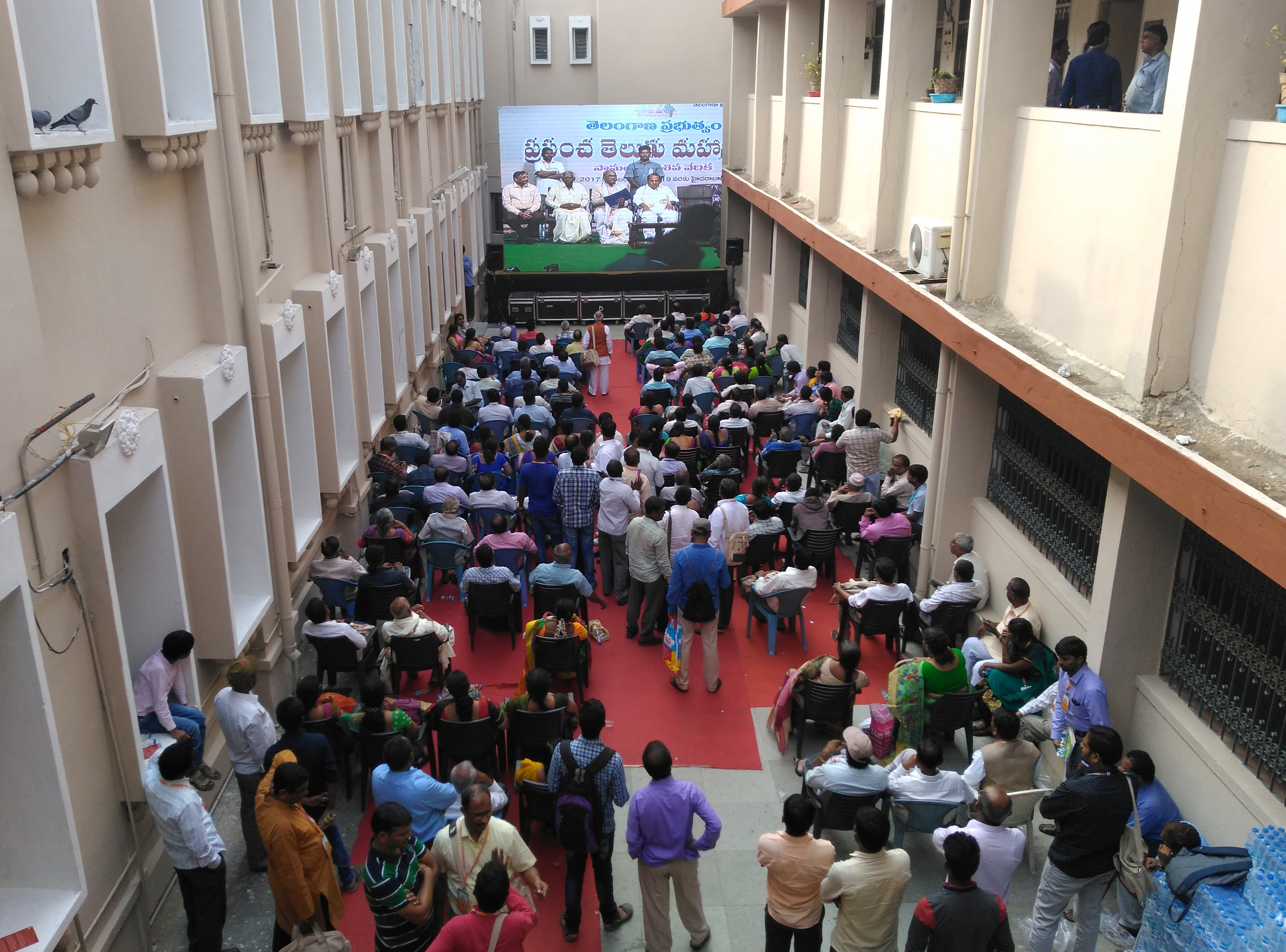 తెలుగు ప్రపంచ మహాసభల వద్ద దృశ్యాలు,వ్యక్తులు,సమావేశాలు